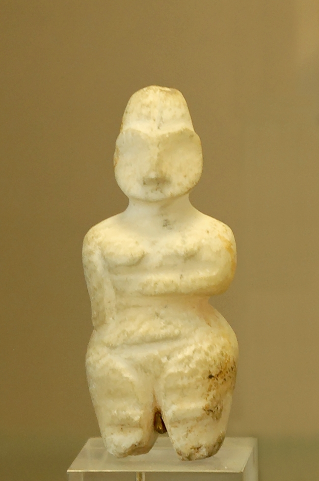 Female figurine. Alabaster, found in the Tell es Sawwan (middle Tigris, near Samarra), level 1, ca. 6000 BC.